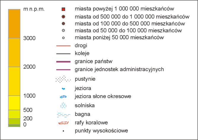 legend for Image:Australia mapa.png